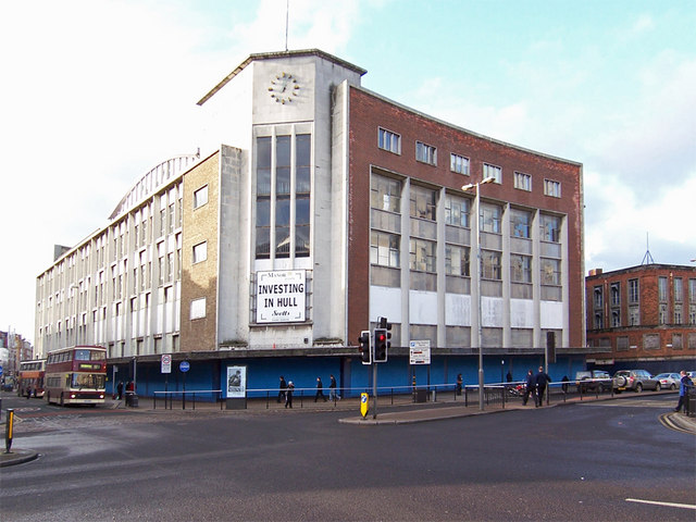 Closed Department Store The centre of Hull has a surprising number of boarded-up or decaying commercial premises. This large, fairly modern, store is situated on the corner of Jameson Street and Bond Street.